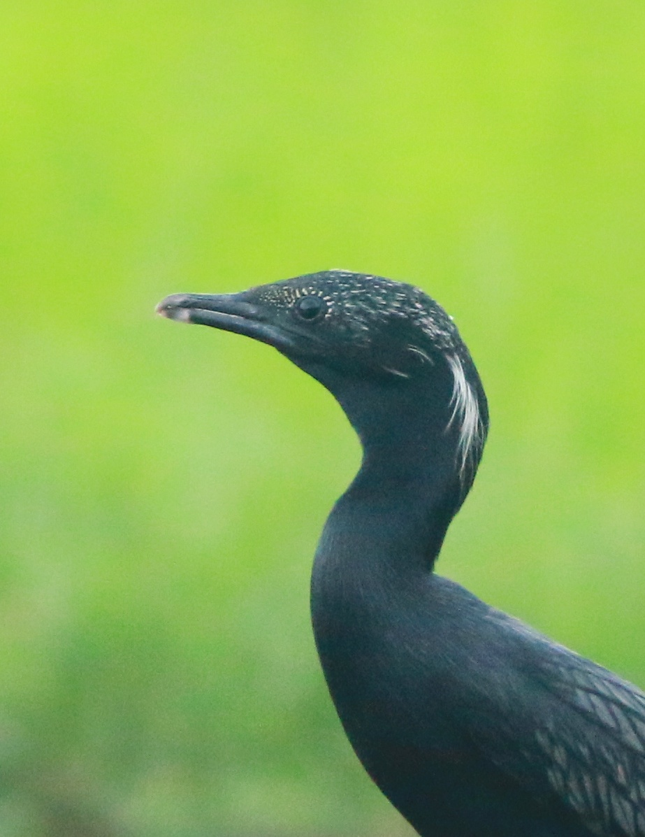 Little cormorant in breeding plumage